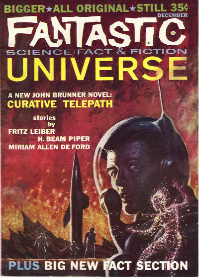 Cover of Fantastic Universe, December 1959